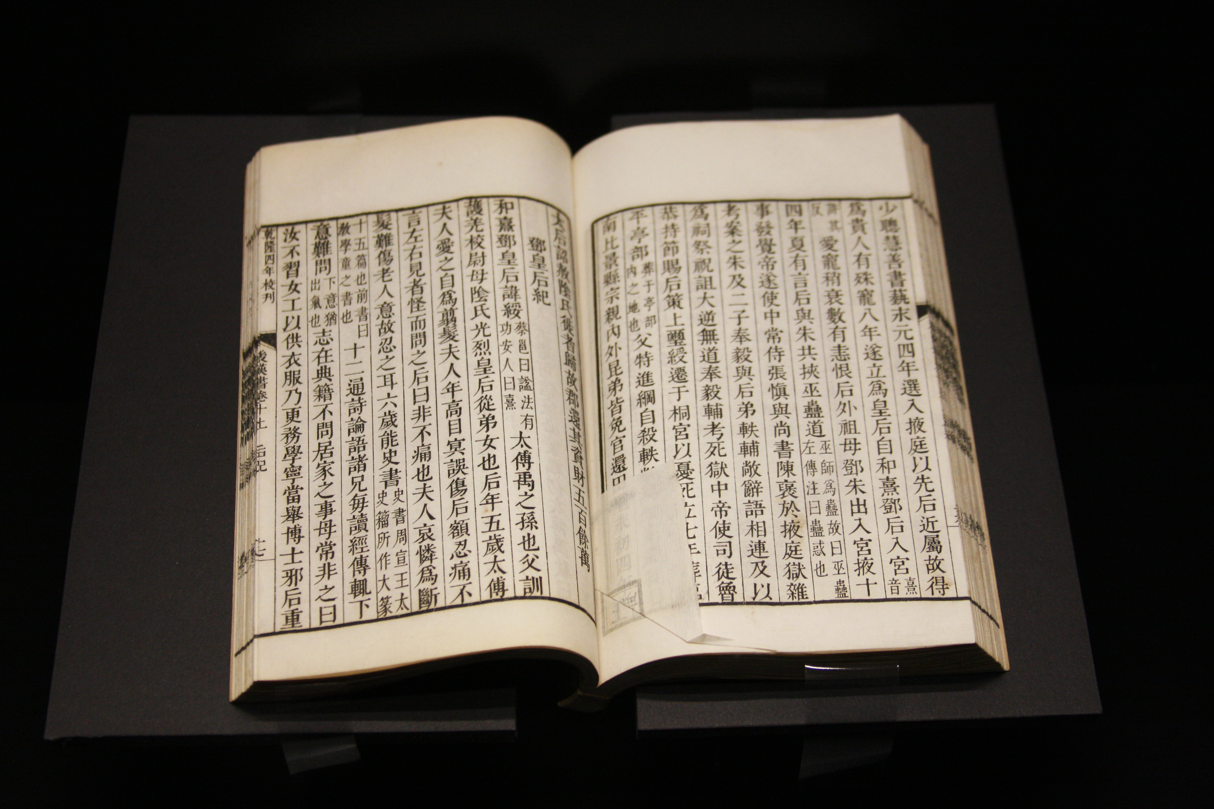 Chronicle of the Han Empire, 10: Biography of Empress Deng (dead 121, A.D.), empress of Emperor He (Han Hedi). Reprint at Östasiatiska Museet, Stockholm.